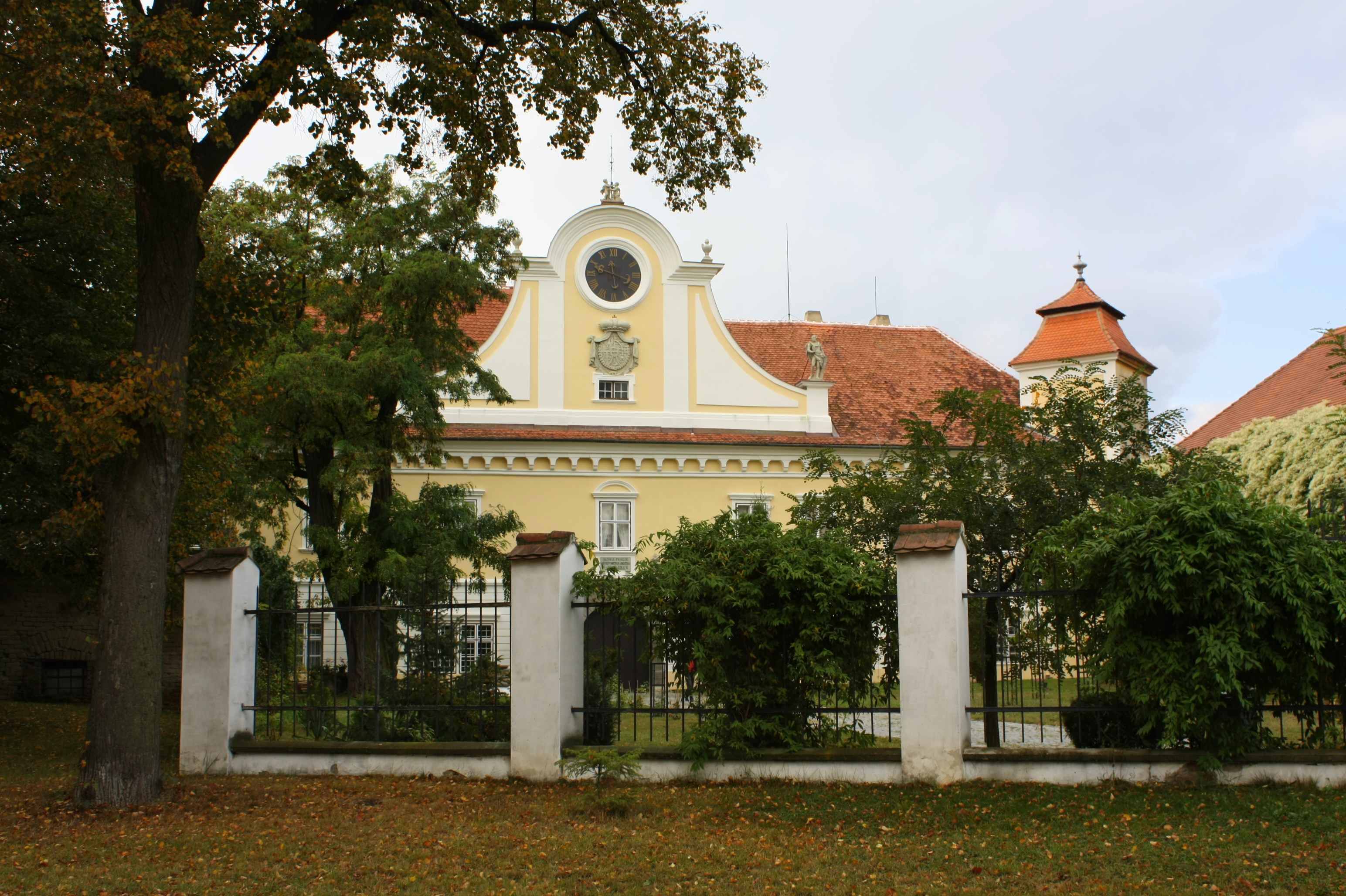 Ždánice, Hodonín district, Czech Republic - chateau and the Vrbas museum